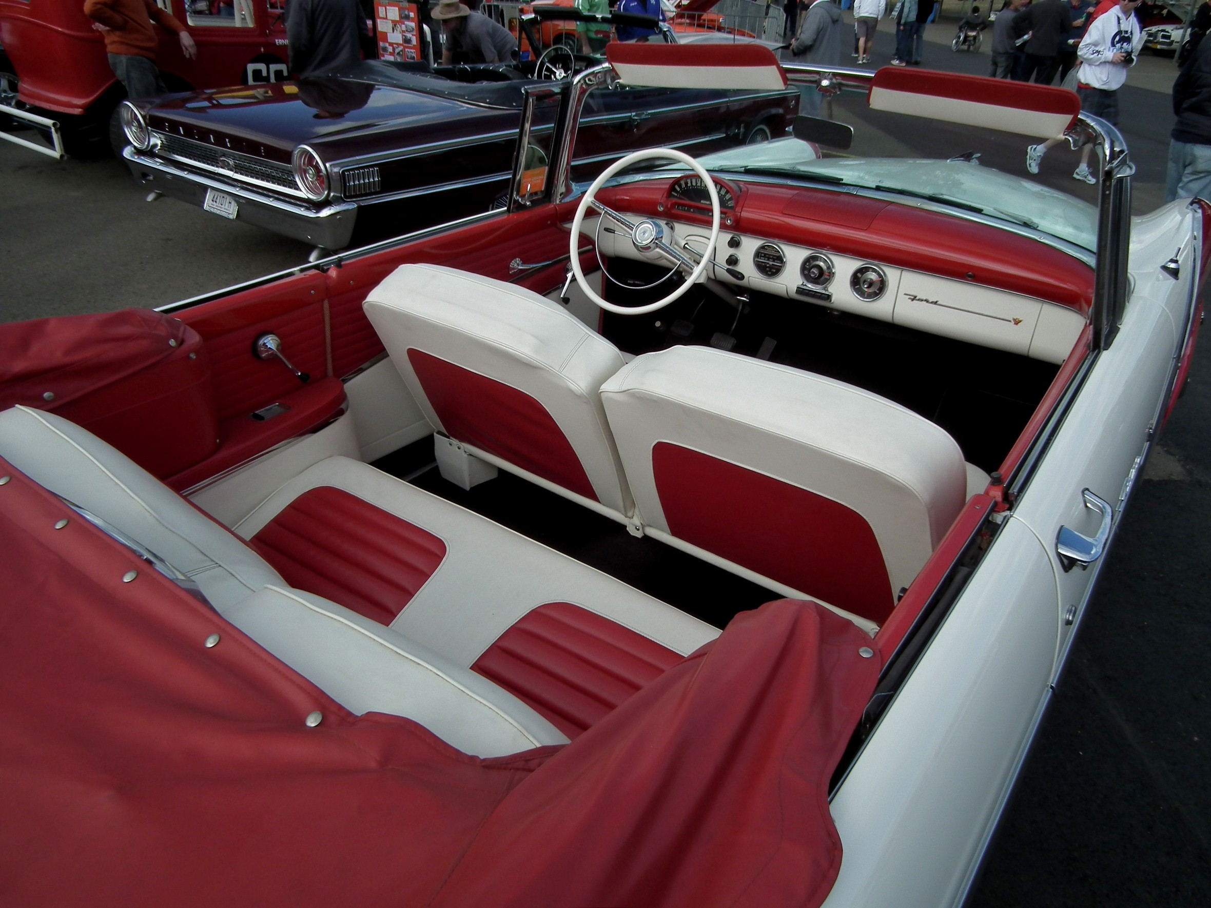 1955 Ford Fairlane Sunliner convertible interior. Taken at the 2012 New South Wales All Ford Day, held at Sydney Motorsport Park (formerly Eastern Creek Raceway).